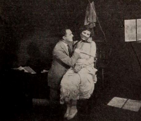 Still from the American drama film serial A Woman in Grey (1920) with Arline Pretty and Henry G. Sell, on page 99 of the January 3, 1920 Exhibitors Herald.